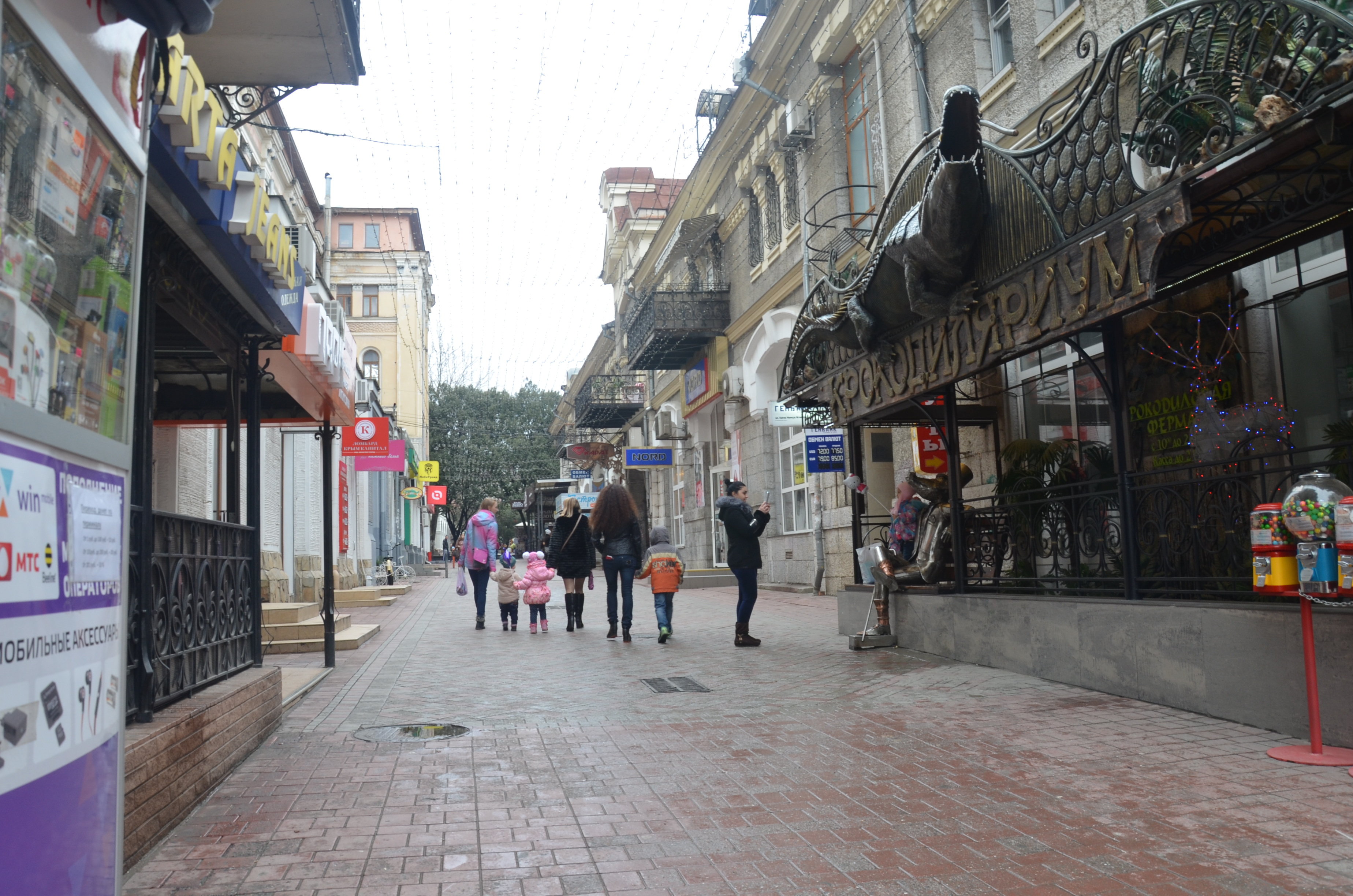 Grafskiy Passage (Yalta), a short pedestrian street in Yalta